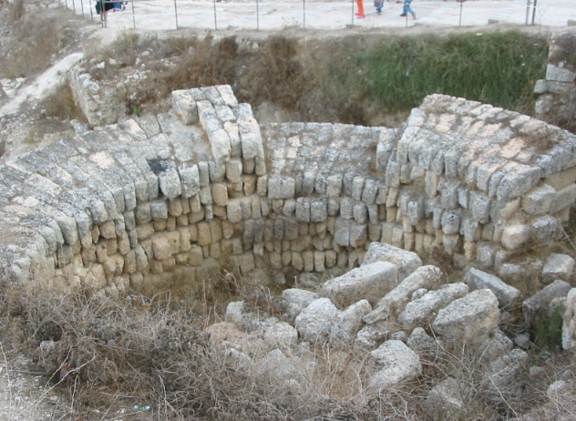 Sebastia/Shomron/Samaria Hellenistic tower from the inside.